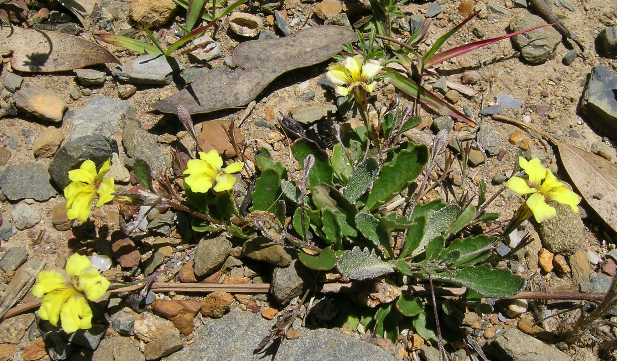 Native, warm-season, perennial, prostrate to ascending herb. Stems are trailing, cottony hairy and up to 80 cm long. Leaves are 1-8 cm long, narrow-oblong to circular, hairless (or nearly so) above and hairless or cottony below; margins are lobed to entire. Found in grasslands, woodlands and forests; in full sun to partial shade.